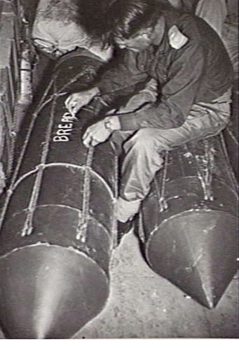 AWM Caption: "En route to Kuching. 1945-08-30. Lieutenant N. C. Waring, Officer Commanding 11 Air Maintenance Platoon, Australian Army Service Corps, writing ‘Bread’ on storpedos aboard an aircraft carrying supplies prepared by the Unit for air dropping to Prisoners of War and Internees in the Prisoner of War Camp at Kuching, Sarawak."